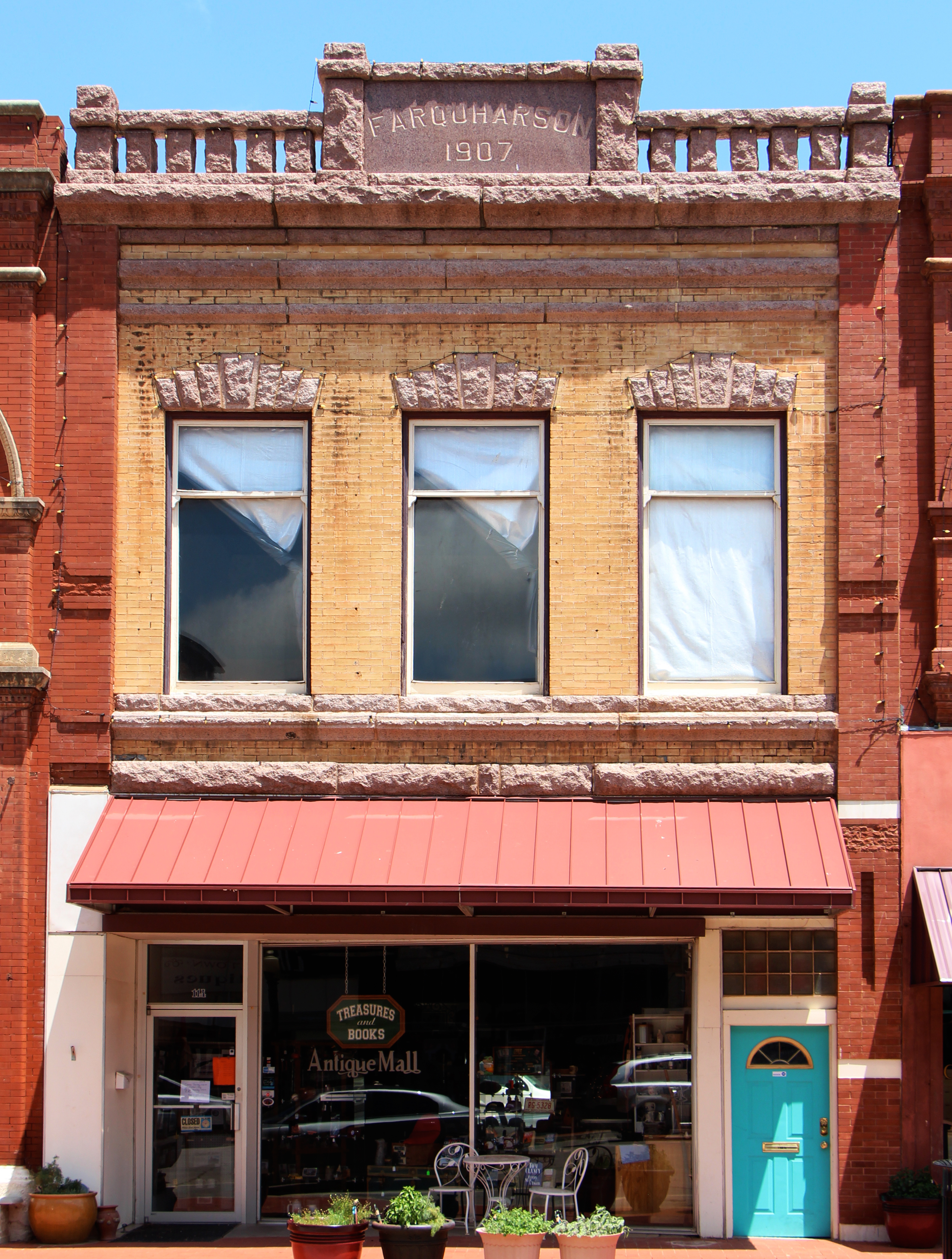 Farquharson Building, Guthrie, Oklahoma